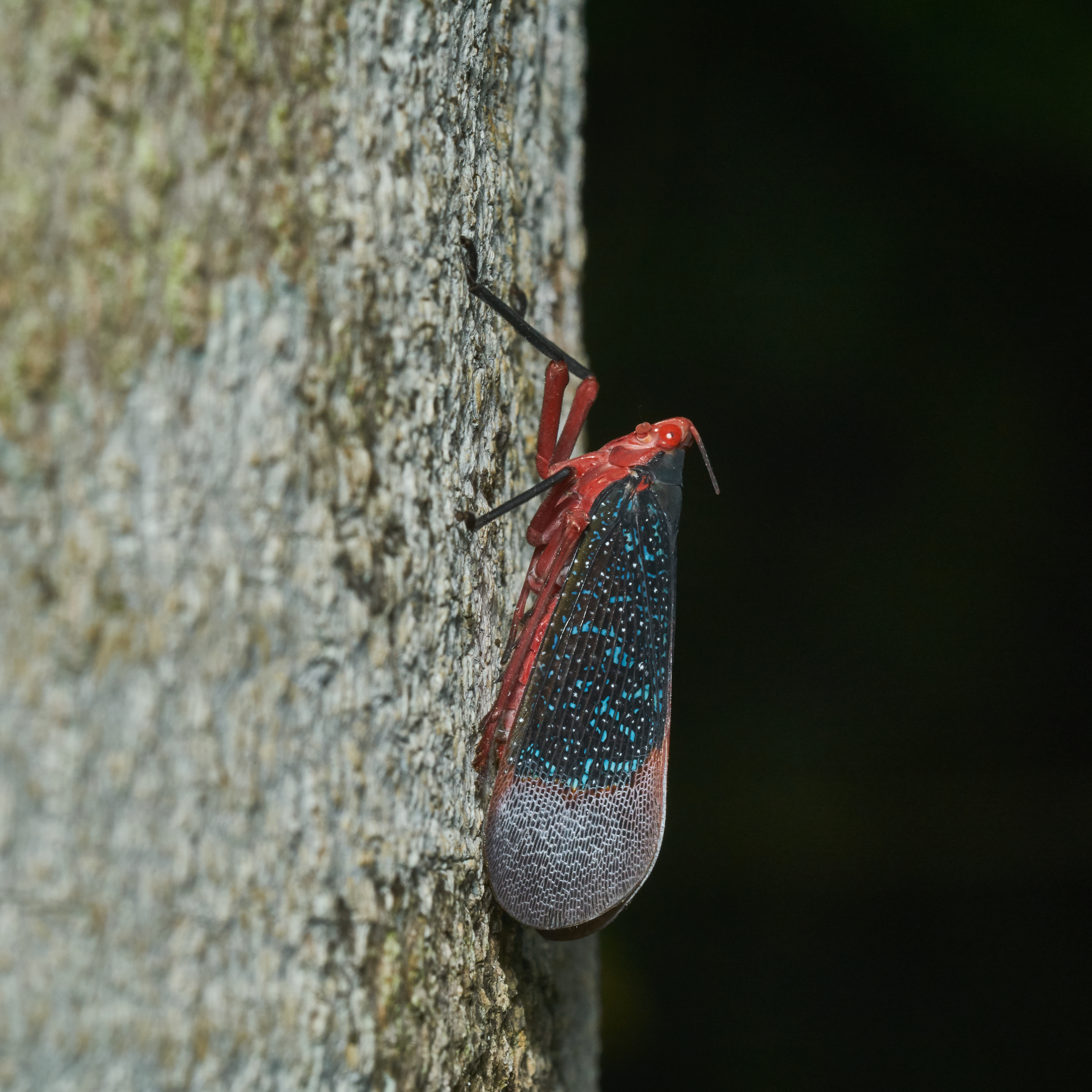 Kalidasa lanata on Ailanthus triphysa. (ID: InsectIndia)